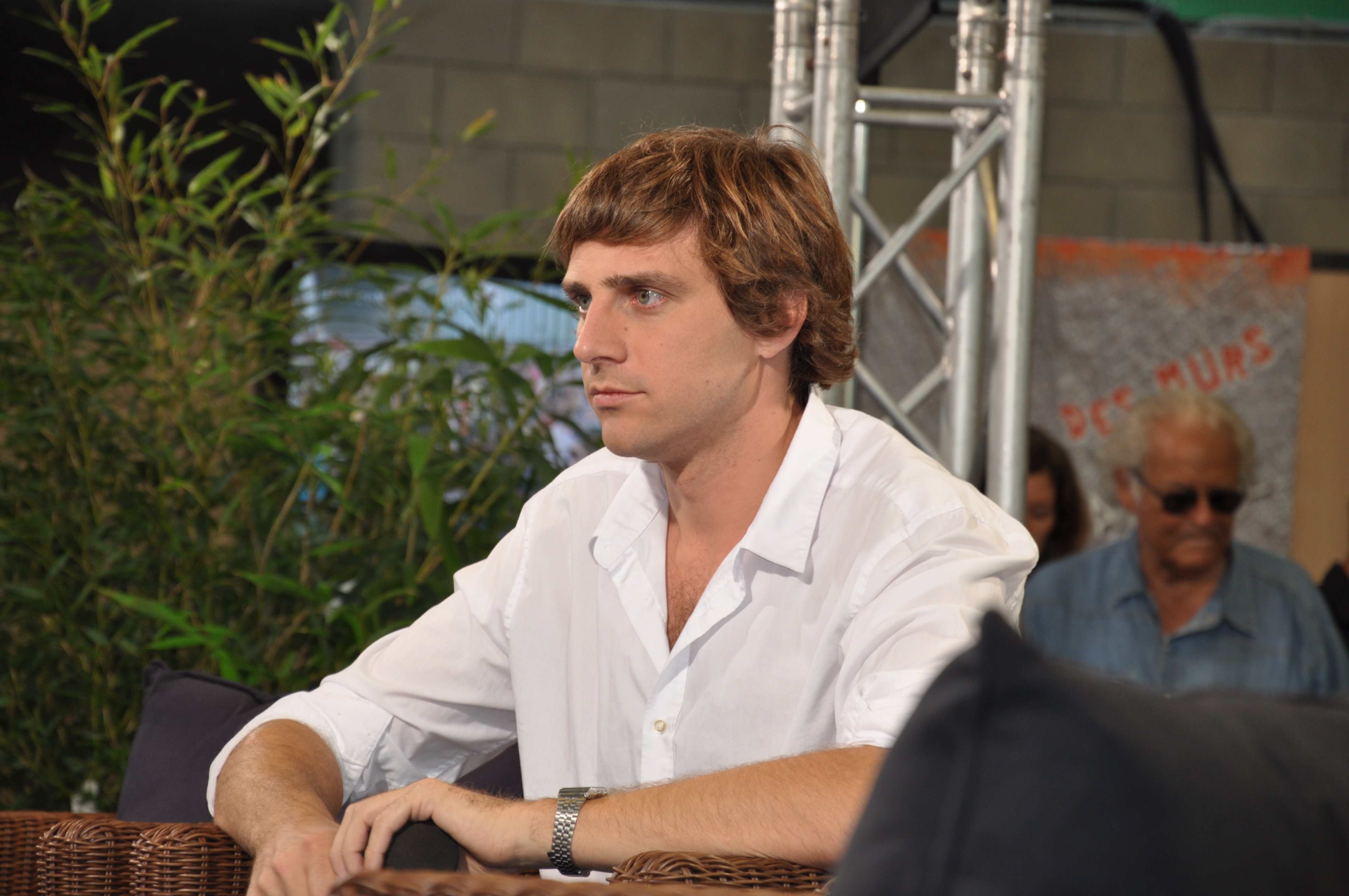 Aurélien Bellanger at the 2012 Mouans-Sartoux Literature Festival.